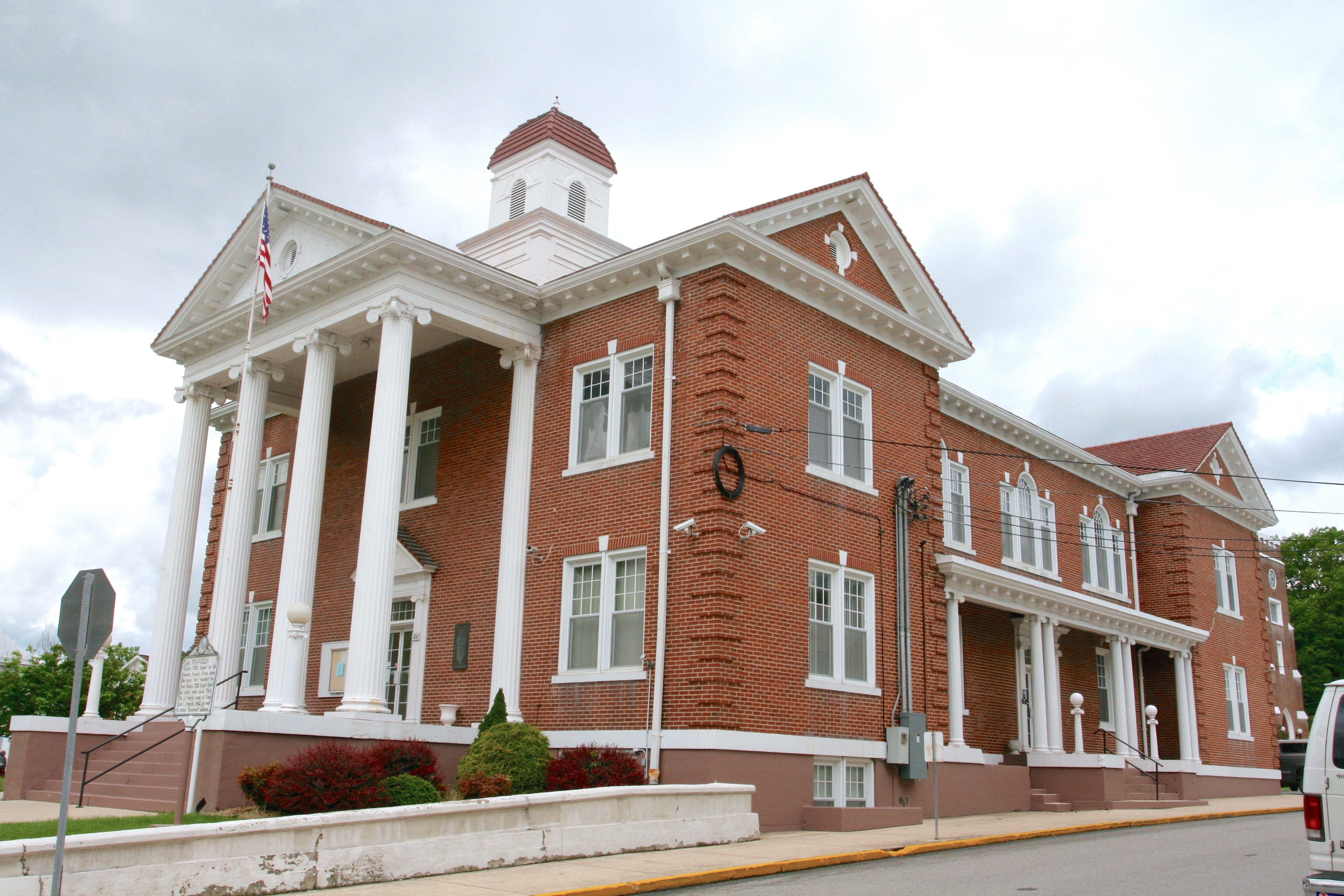 The Pendleton County Courthouse located in Franklin, West Virginia.